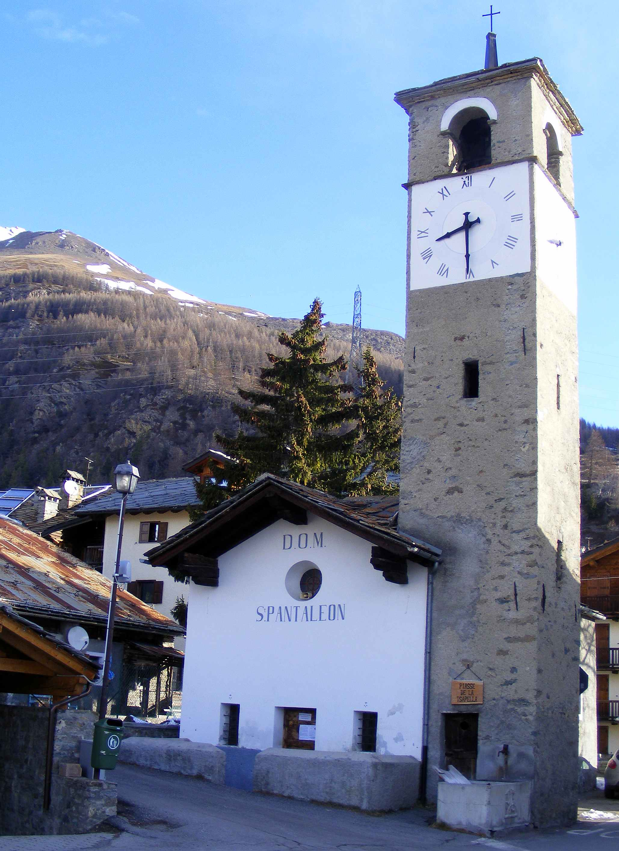 Gimillan (Cogne, AO, Italy):vSaint Pantaleon church